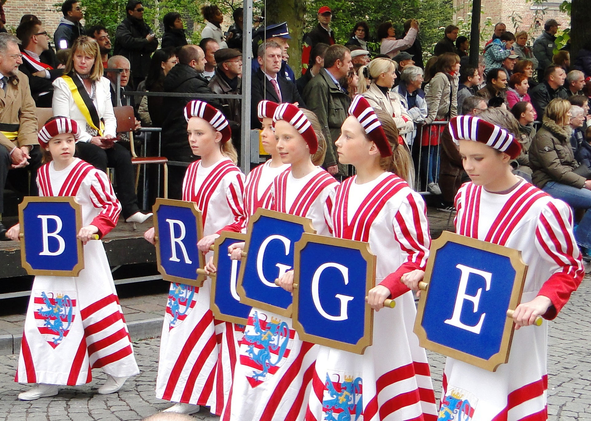 Procession of the Holy Blood, Bruges, Belgium, May 2010